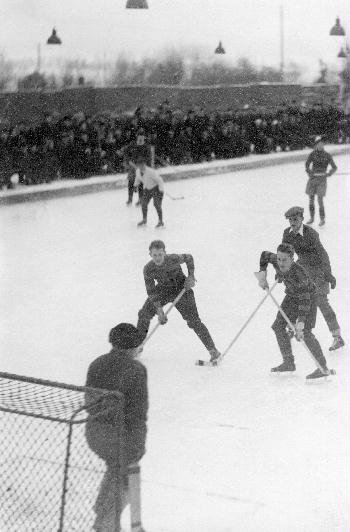 In an ice hockey game in the Finnish SM-sarja, Jussi and Risto Tiitola (in the striped jerseys in the middle of the frame; Risto on the left, Jussi on the right) of Ilves Tampere approach the goal of HJK Helsinki. Koulukatu rink, Tampere, Finland.